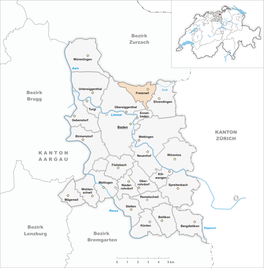 Municipality Freienwil